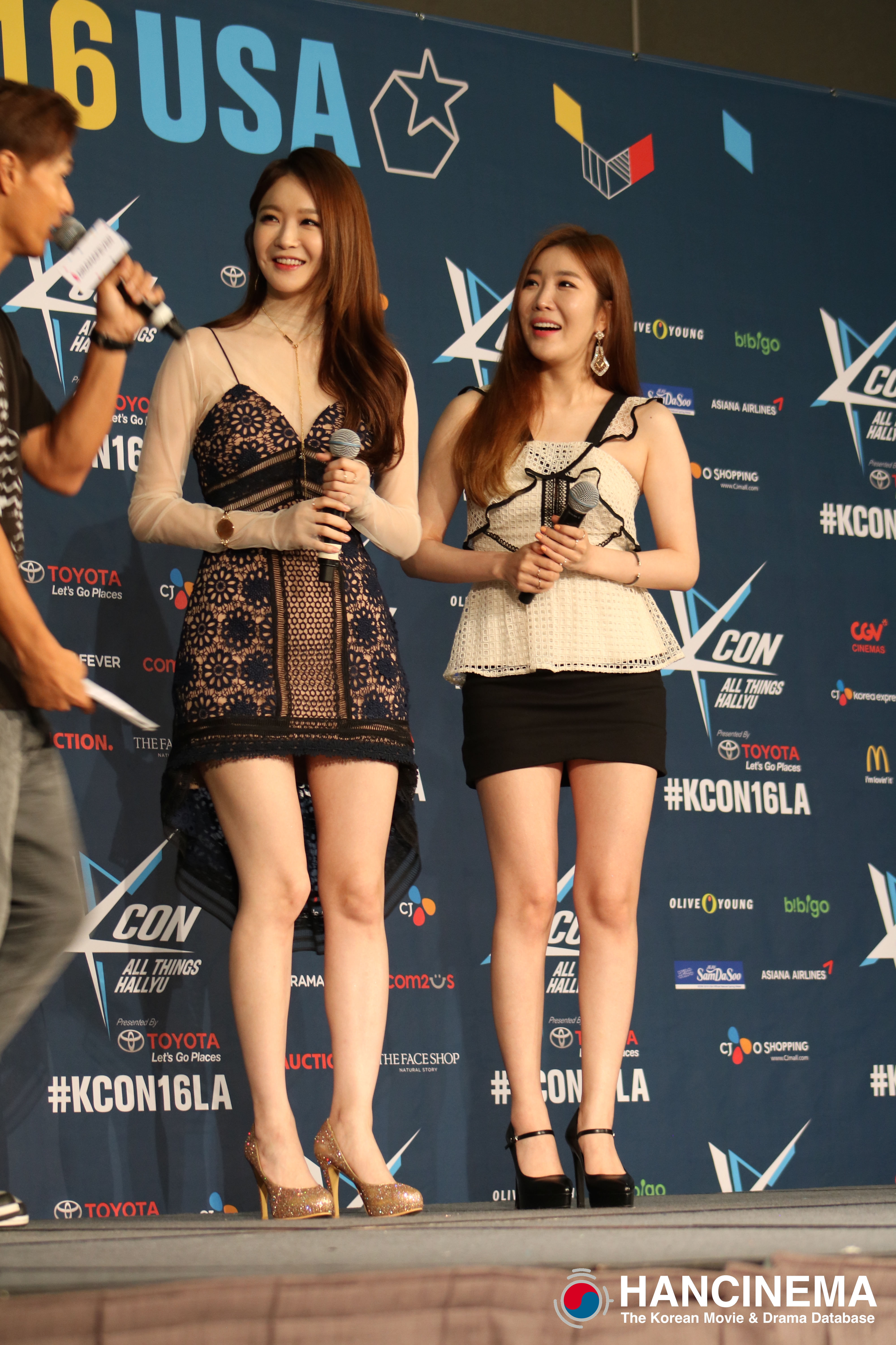 KCON LA 2016 Red Carpet